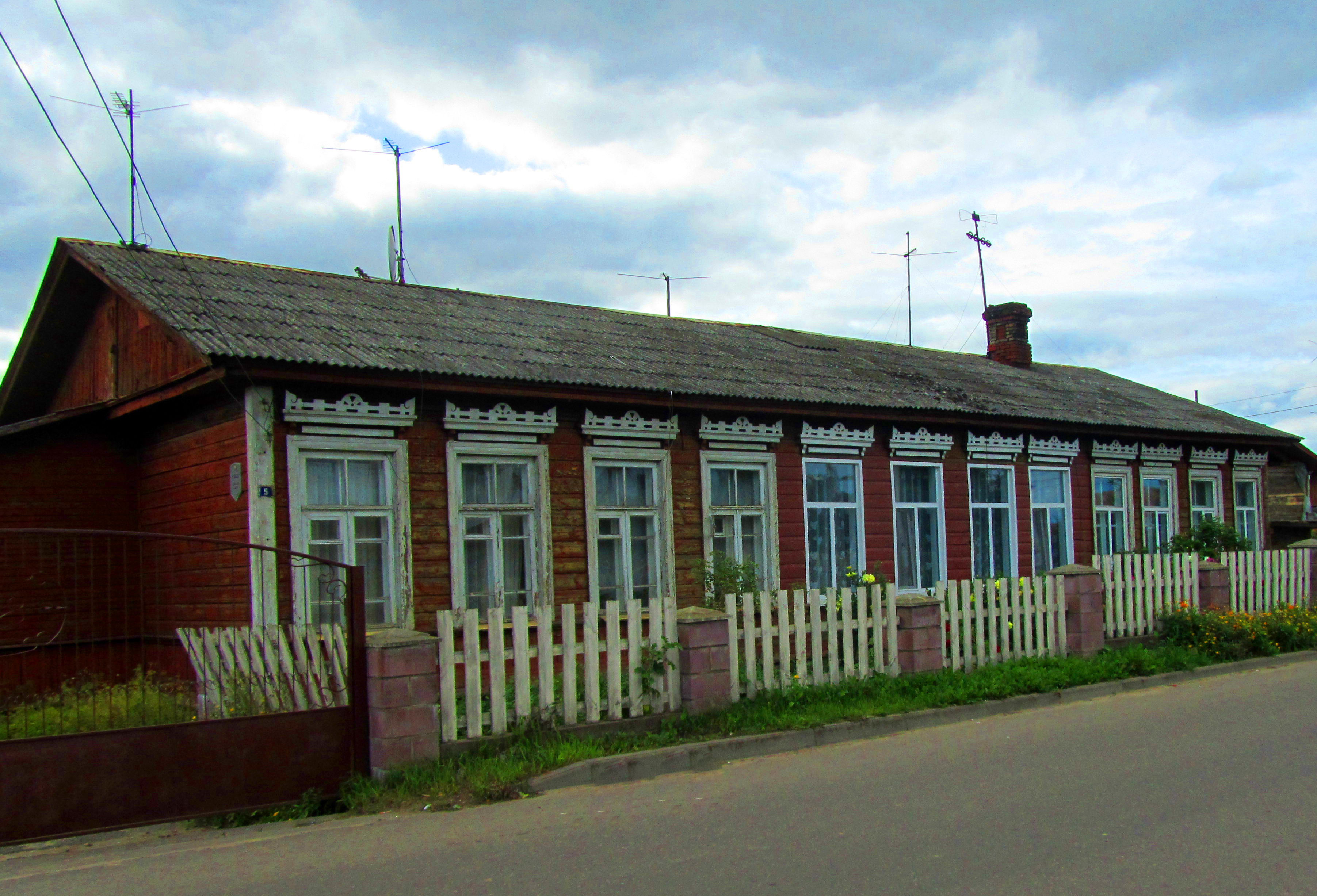 Беларуская (тарашкевіца): Будынак. г. Заслаўе This is a photo of Belarusian heritage monument. Reference number: 613Г000325 ( WLM)